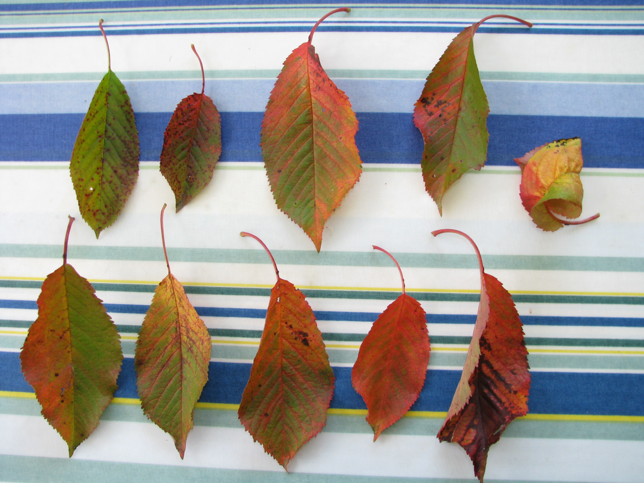 Sick Prunus_cerasus, source cherry, from an unknow reason.